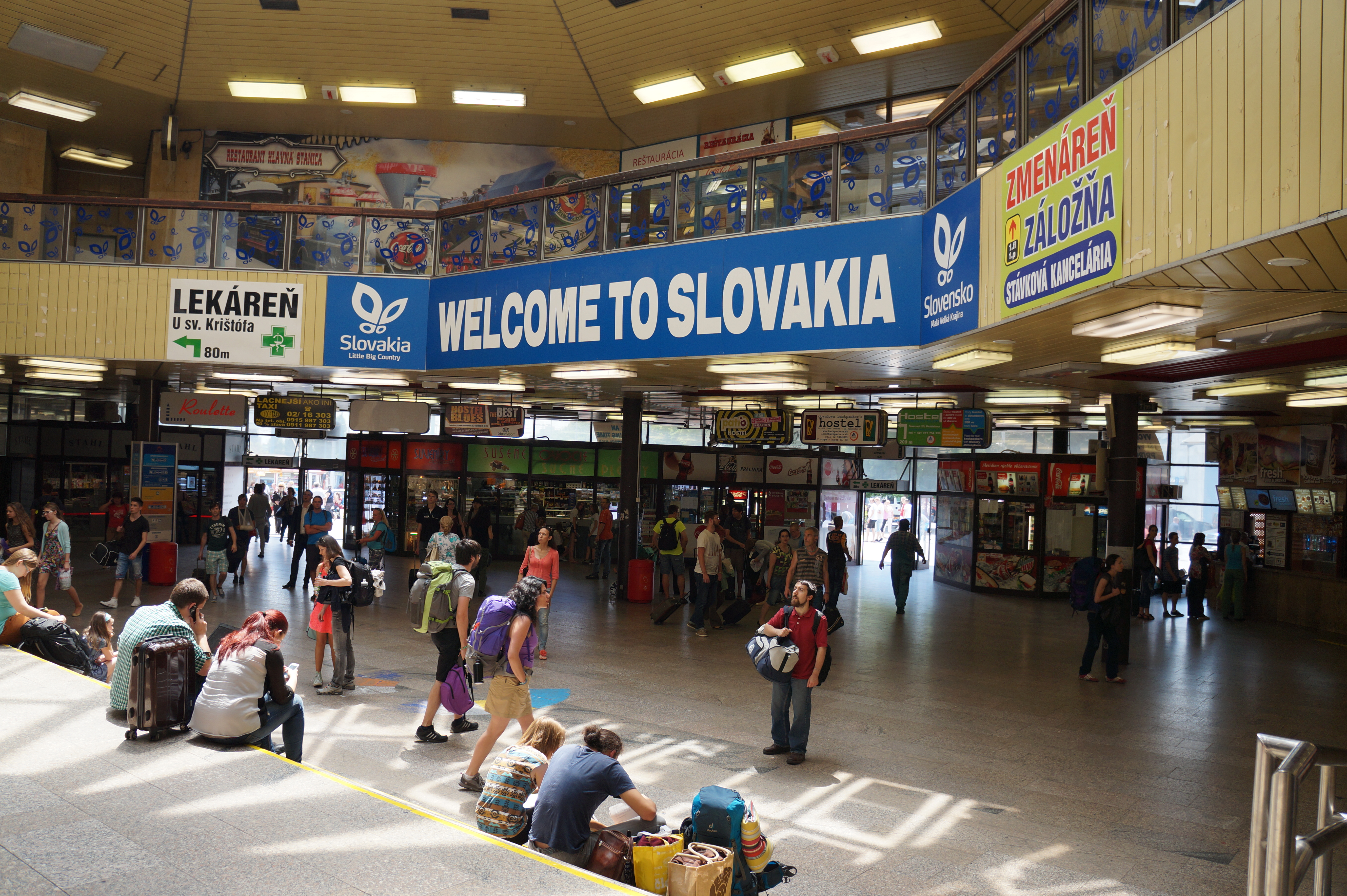 Welcome to Slovakia sign inside Bratislava main train station (hlavná stanica). This photo has been released into the public domain. There are no copyrights: you can use and modify this photo without asking, and without attribution.